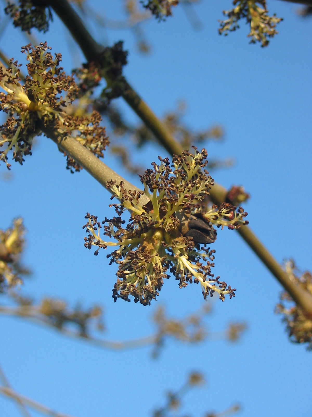 Flower of an ash tree